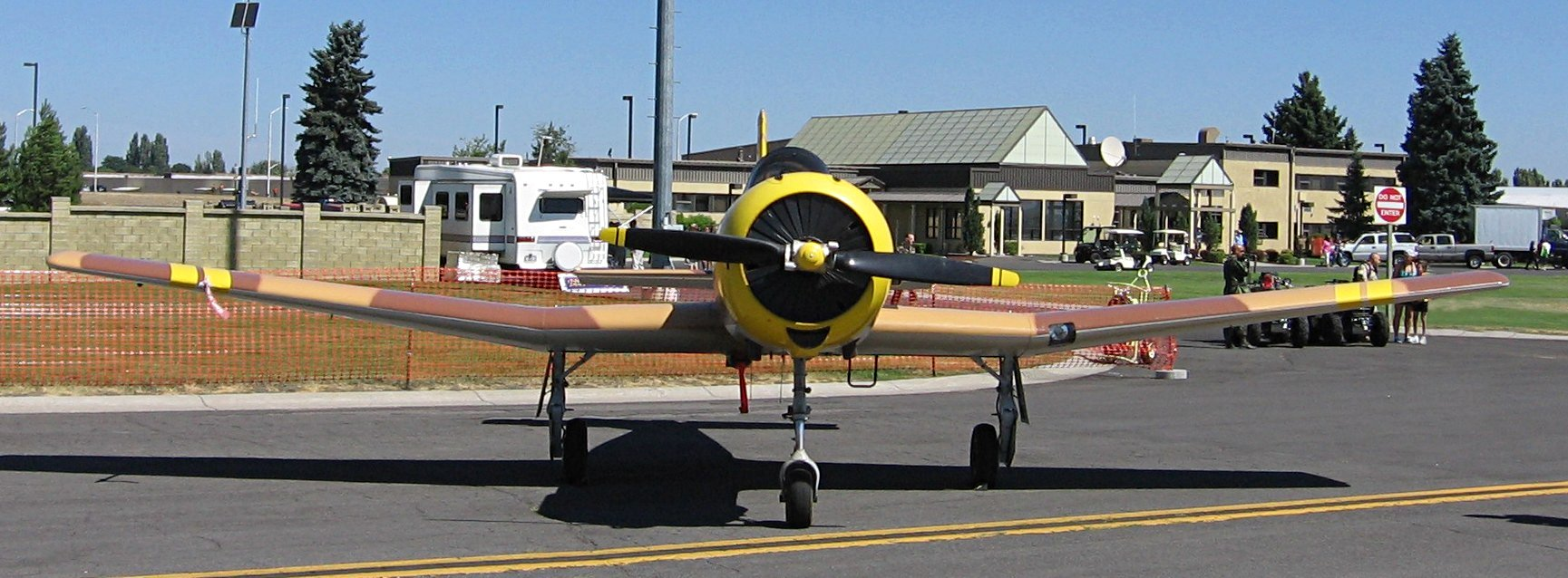 Front view of a Nanchang CJ-6 trainer aircraft, photographed at the Spokane Airshow